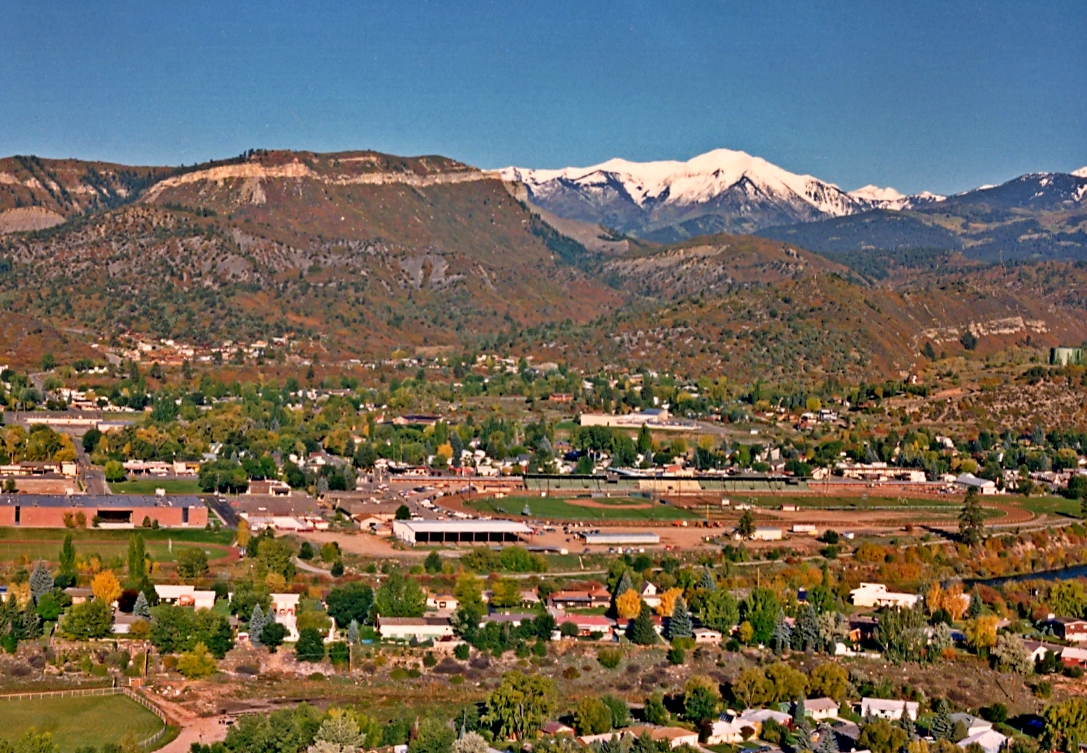 Durango Colorado from Rim Drive. I believe the fairgrounds and high school are in this frame. Wish I knew the name of the snow-capped mountain.